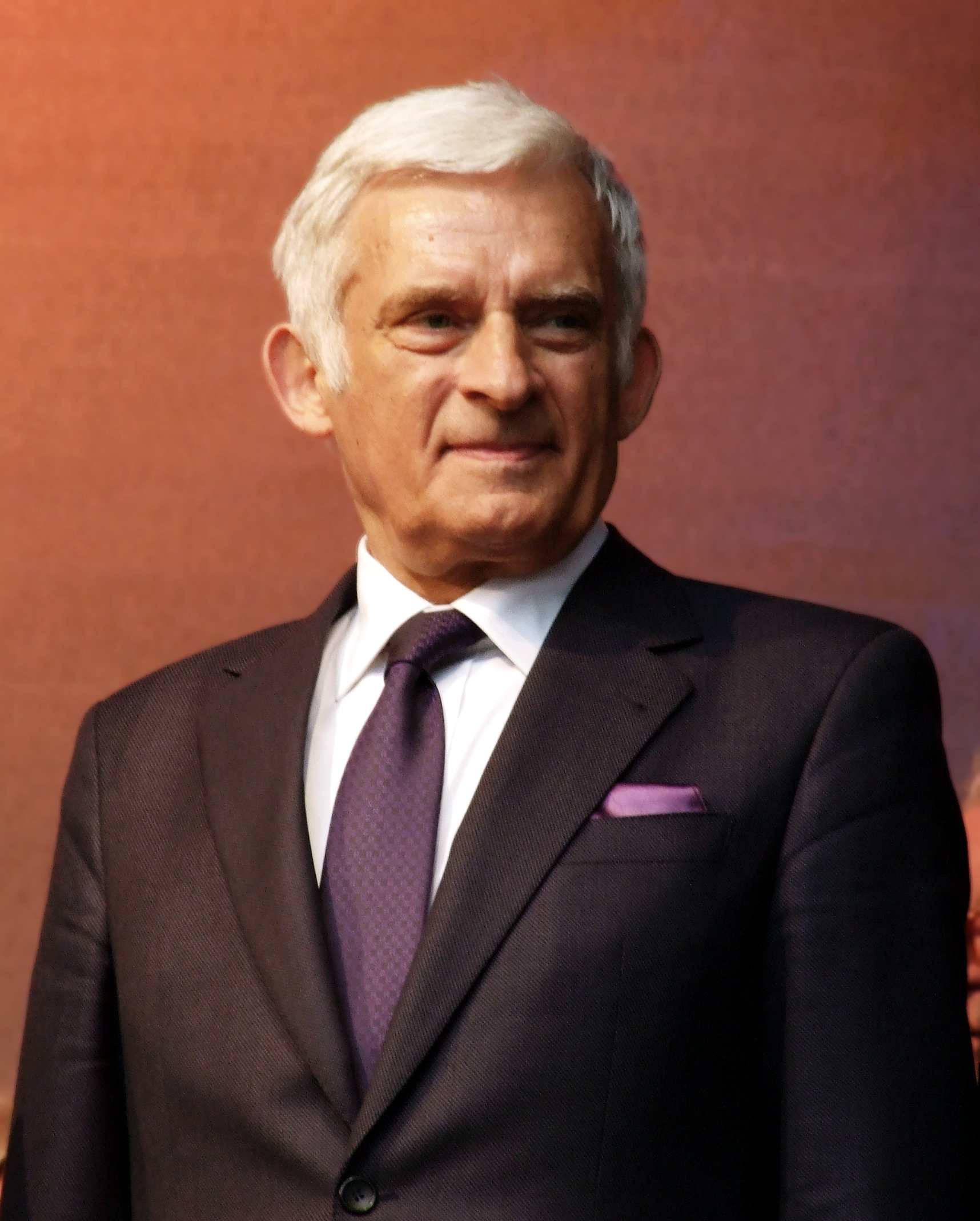 Jerzy Buzek in Aachen